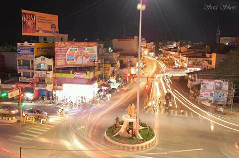 Picture of road